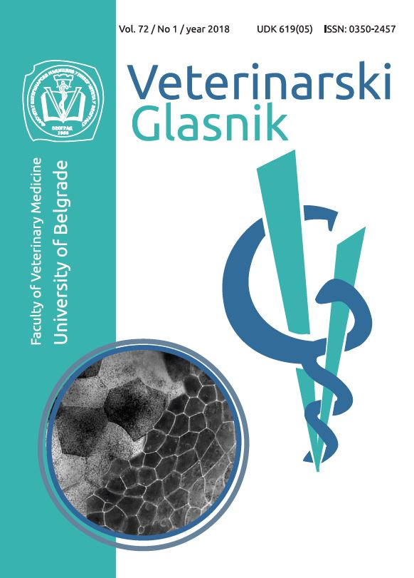 Serbian scientific journal Veterinarski glasnik, 2018.